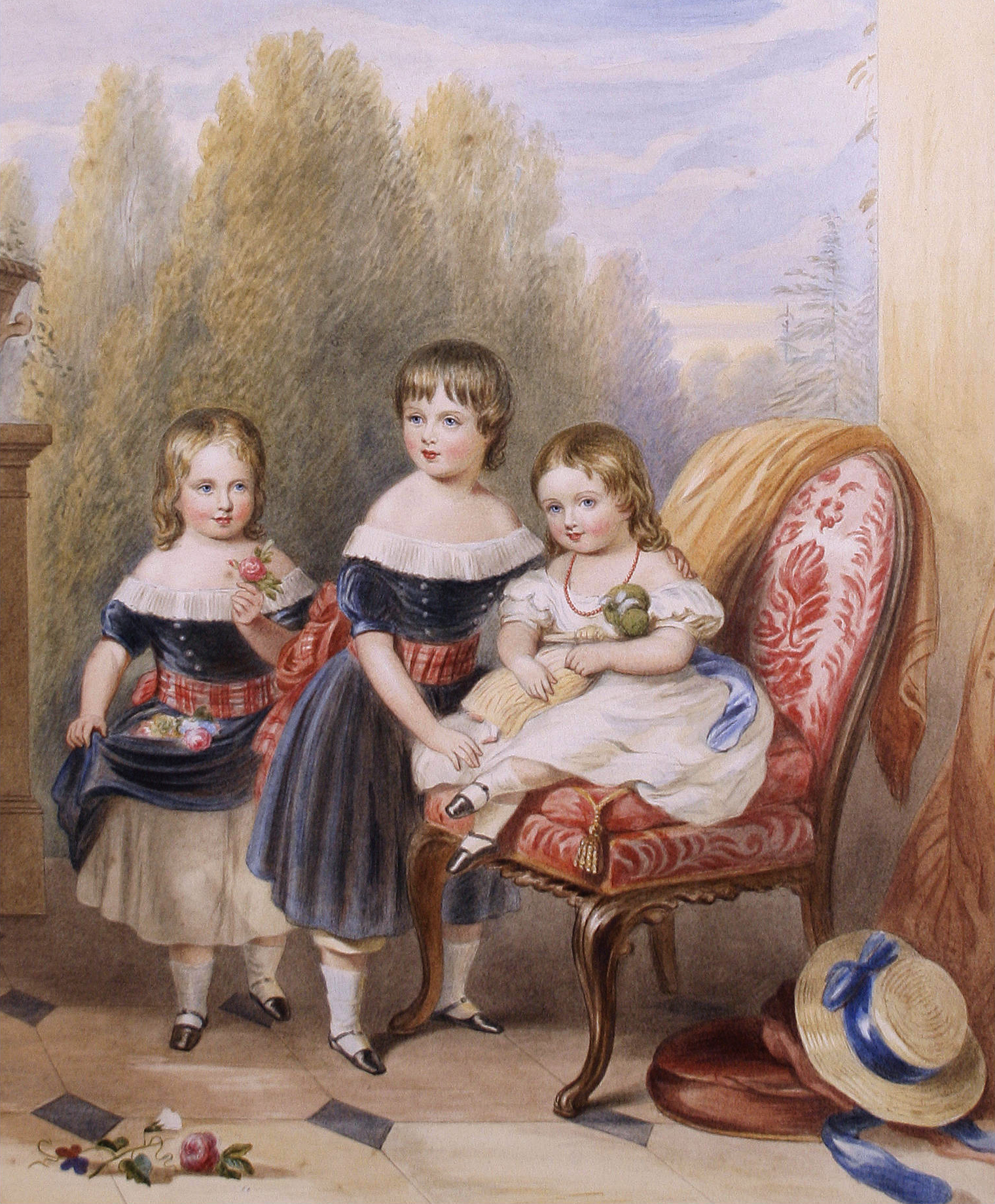 The three eldest children of Frederick John Howard (1814-1897) and Lady Fanny Cavendish, William and George, standing; Louisa, seated inscribed verso: William Frederick / George Francis / and / Louisa Blanche / Howard / children of Fredk John & Lady Fanny Howard / copy by Dowling / from the original by H. B. Ziegler / painted in 1844